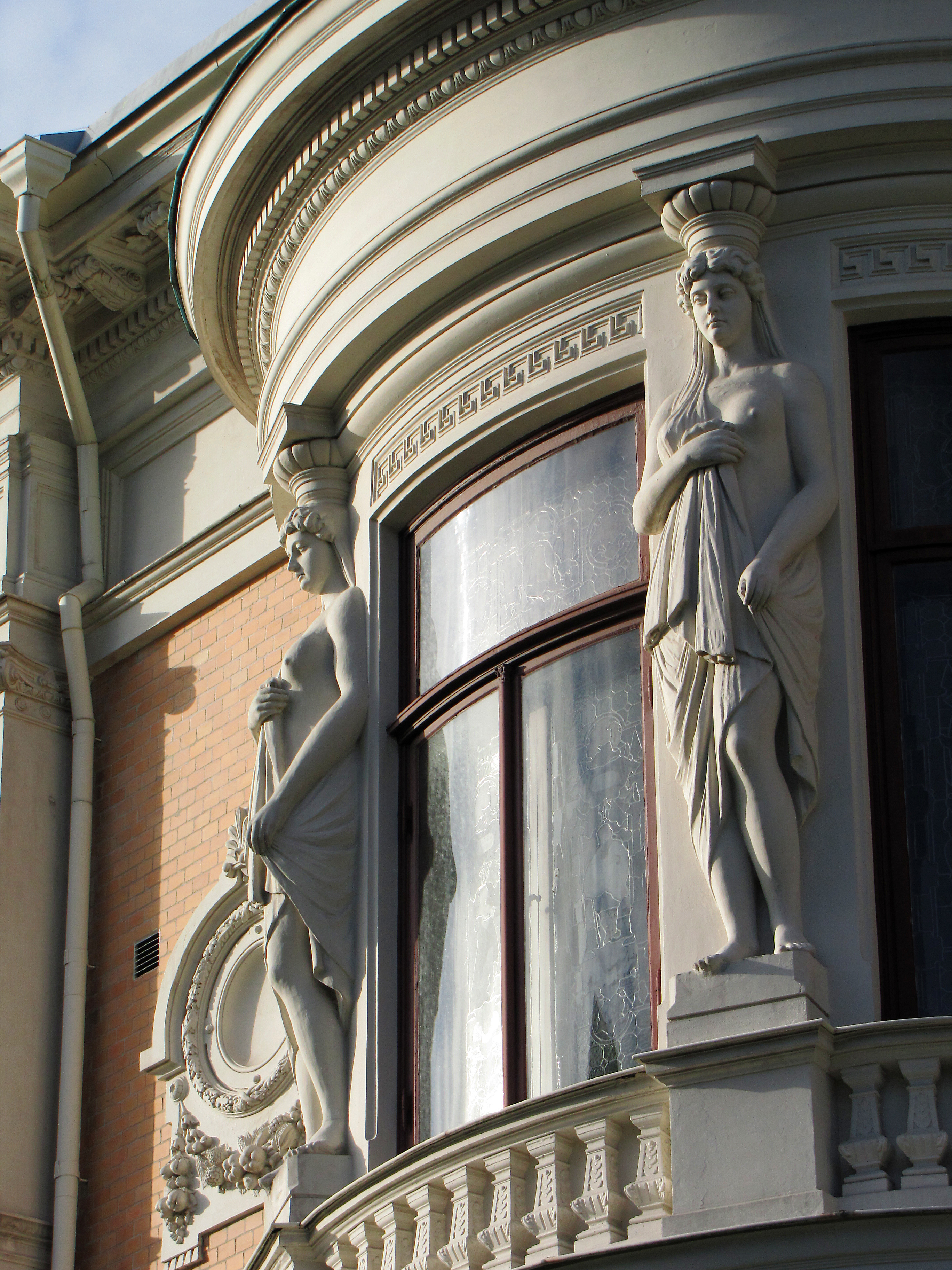 "Wernerska villan", the Werner house in central Göteborg: Oriel on the east side with curved window panes and sculptures.